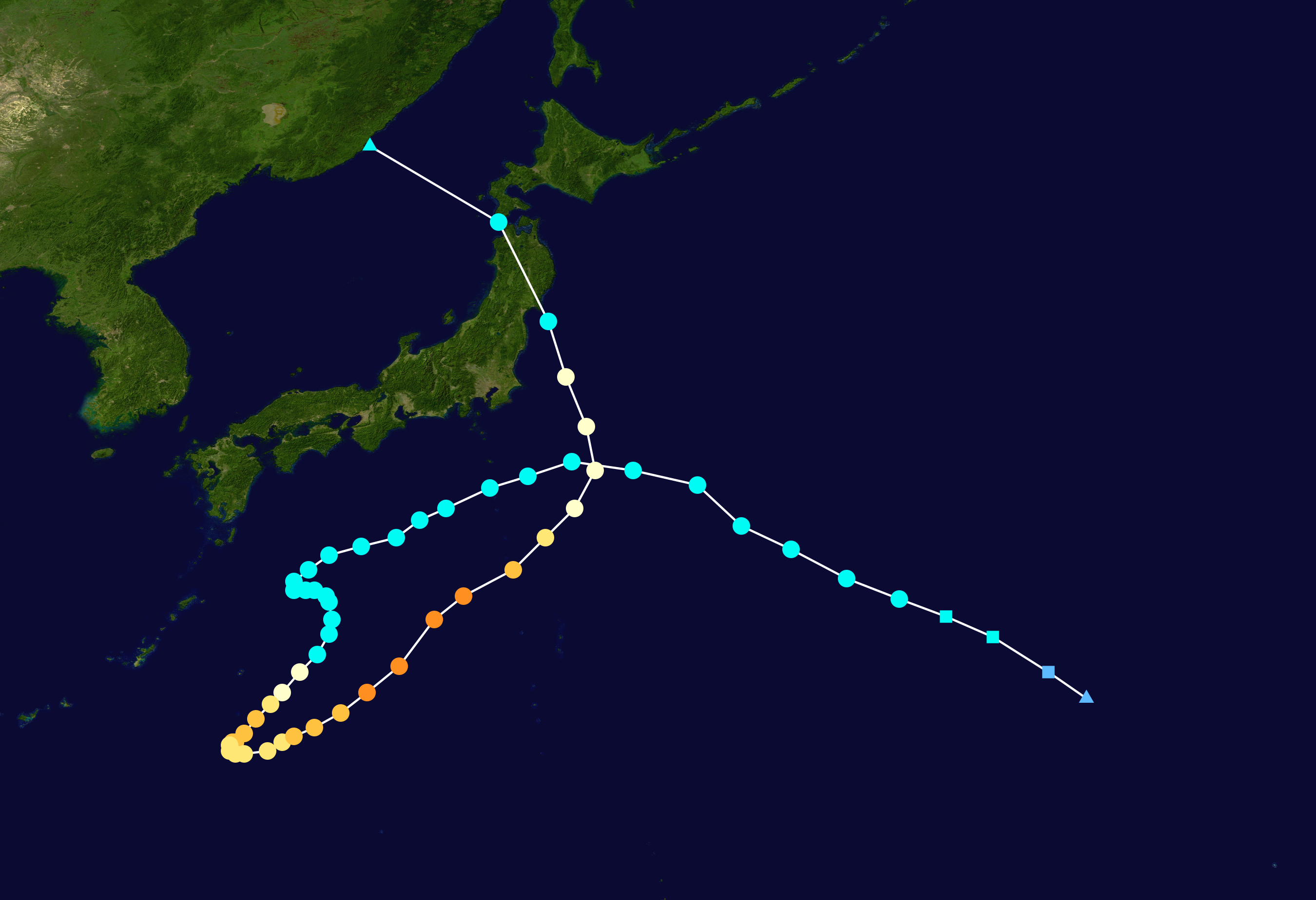 Track map of Typhoon Lionrock of the 2016 Pacific typhoon season. The points show the location of the storm at 6-hour intervals. The colour represents the storm's maximum sustained wind speeds as classified in the Saffir–Simpson scale (see below), and the shape of the data points represent the nature of the storm, according to the legend below. Saffir–Simpson scale Tropical depression≤38 mph≤62 km/h Category 3111–129 mph178–208 km/h Tropical storm39–73 mph63–118 km/h Category 4130–156 mph209–251 km/h Category 174–95 mph119–153 km/h Category 5≥157 mph≥252 km/h Category 296–110 mph154–177 km/h Unknown Storm type Tropical cyclone Subtropical cyclone Extratropical cyclone / Remnant low / Tropical disturbance / Monsoon depression